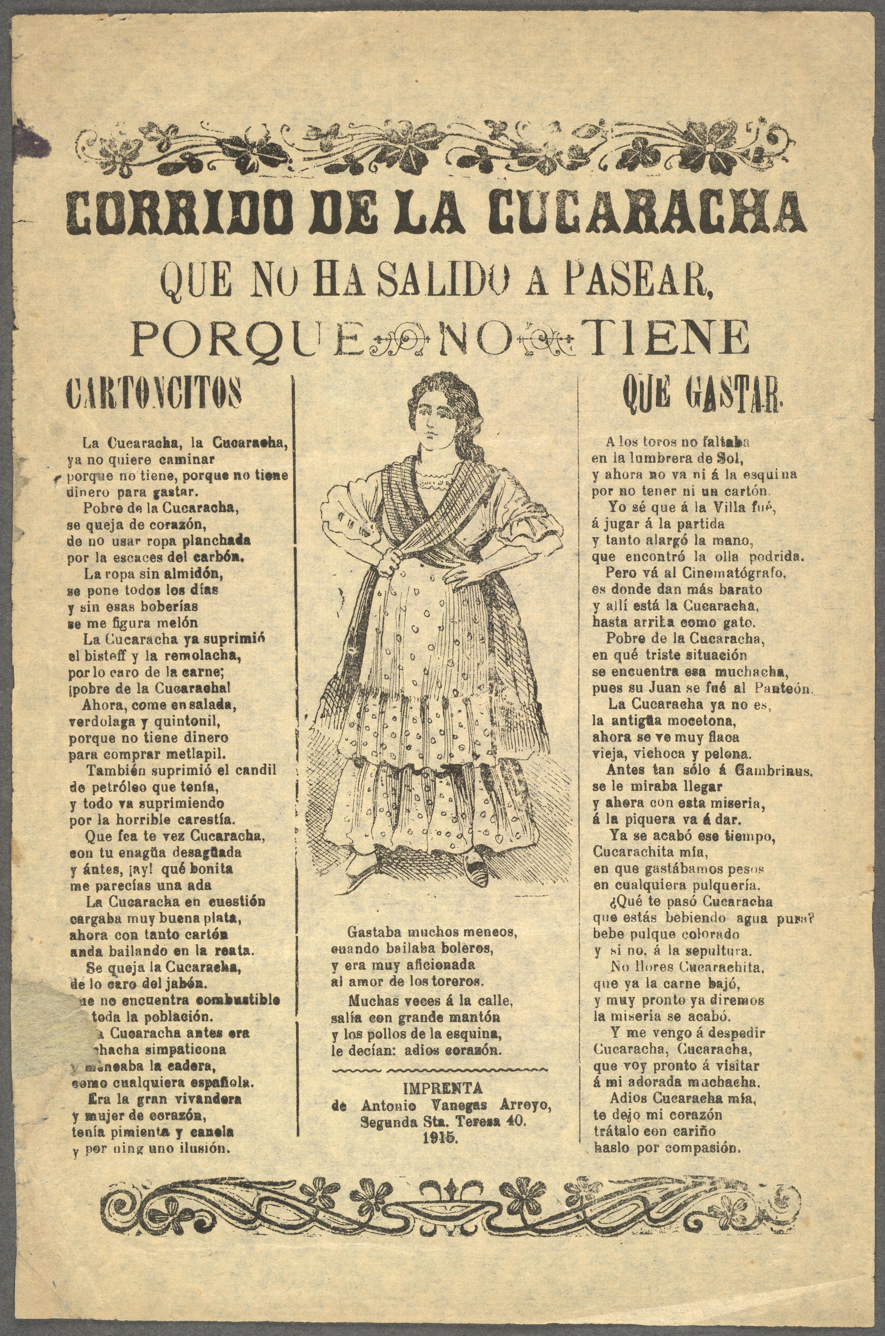 A corrido song sheet of the song La cucaracha, dating from the Mexican Revolution. The title line says that the cockroach can't go out to pasear, because she (the lyrics in this case make it pretty clear the cockroach is female) doesn't have money (in the form of cartoncitos, a type of scrip) to spend. Litografías mexicanas de Antonio Venegas Arroyo.